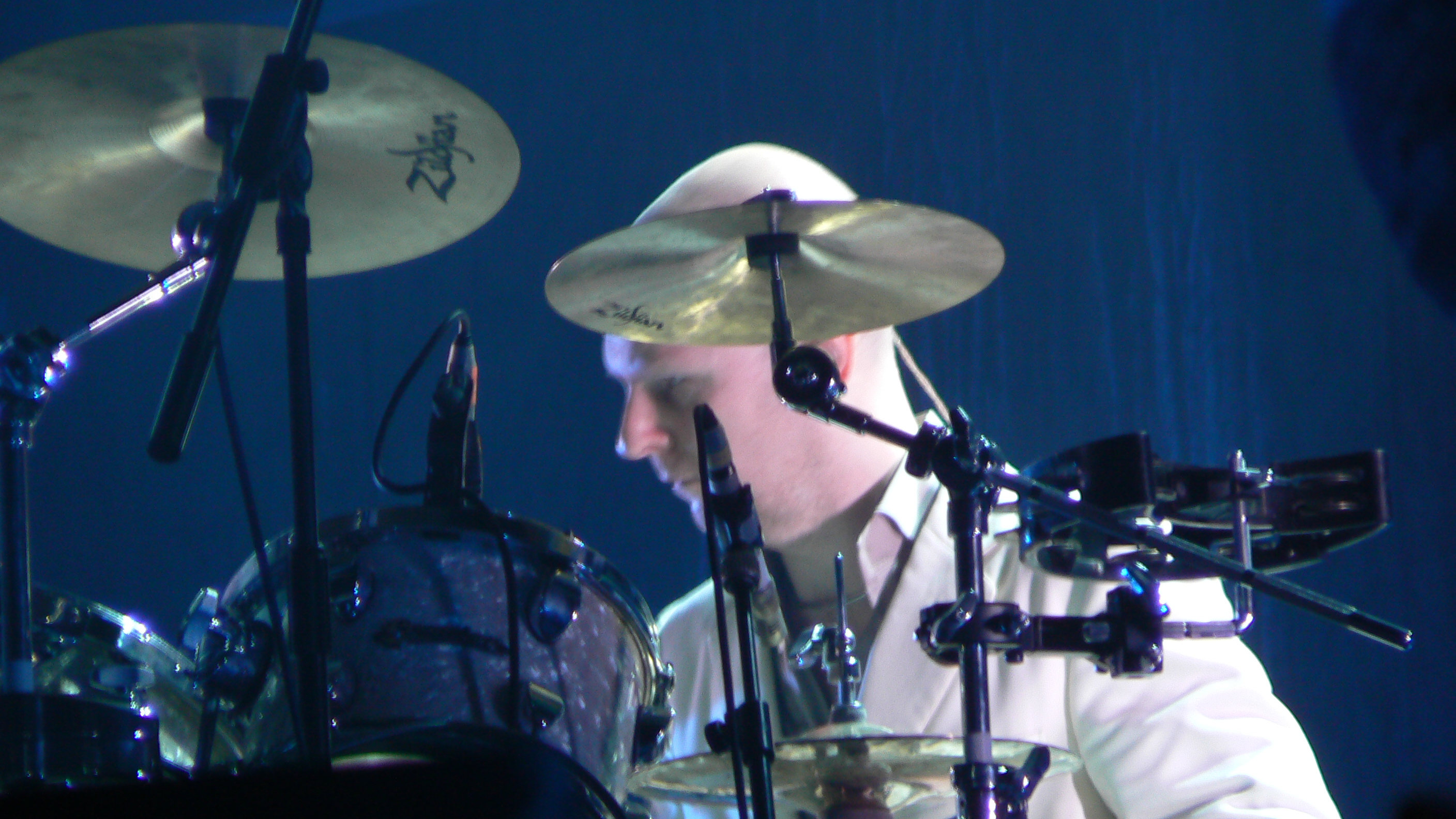 Phil Selway performing with Radiohead at Heineken Music Hall, May 9